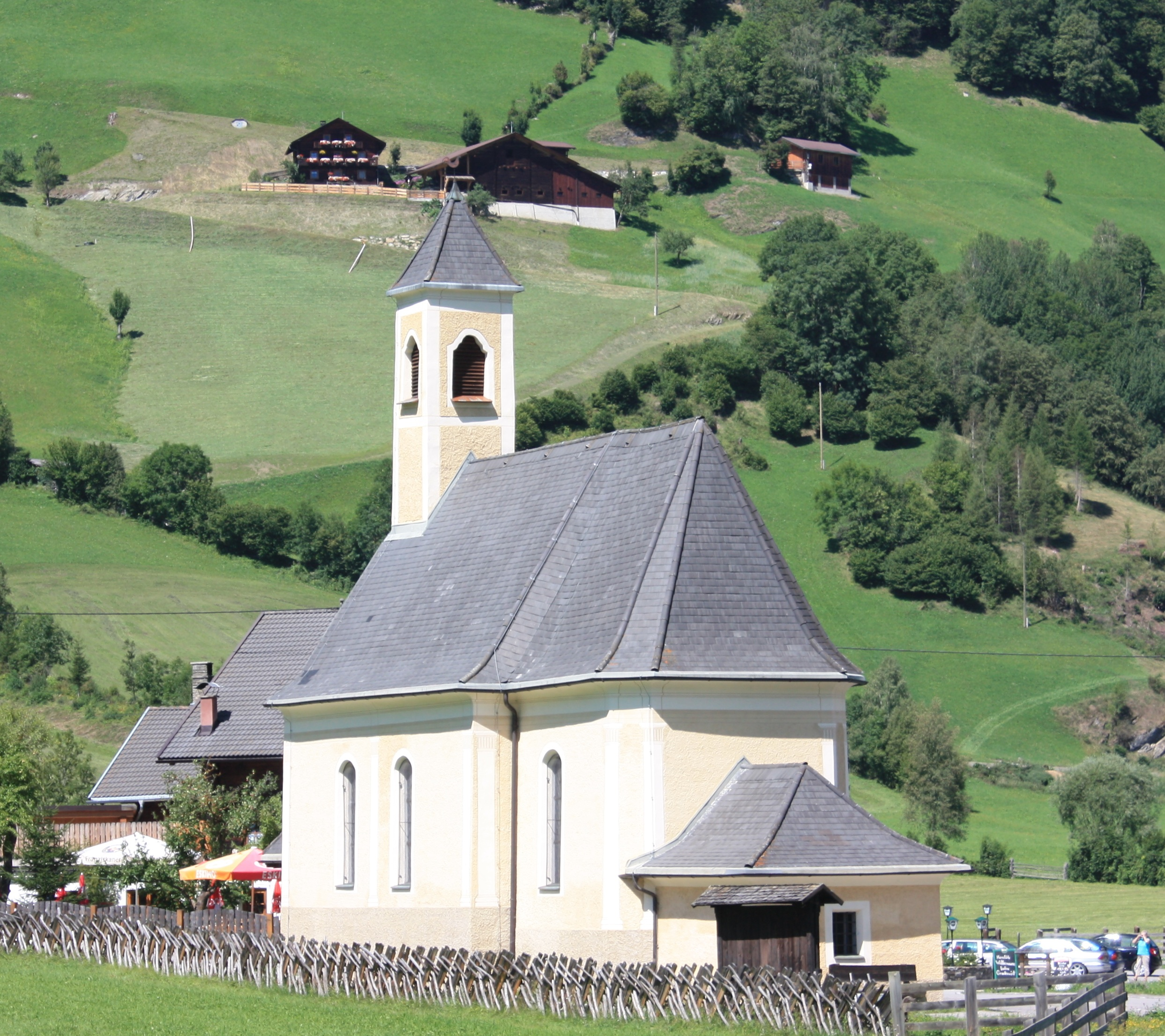 Subsidiary church „Maria Hilf“ Locality: Putschall Community:Großkirchheim